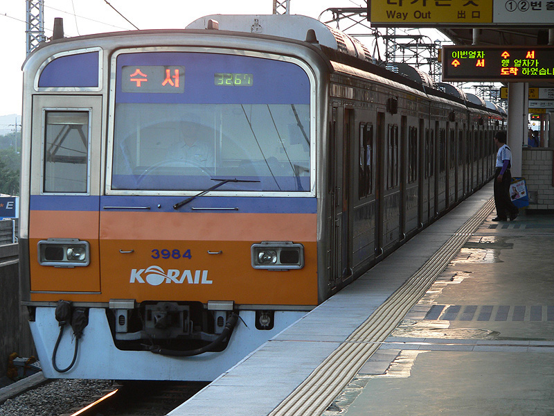 KORAIL 3000series EMU